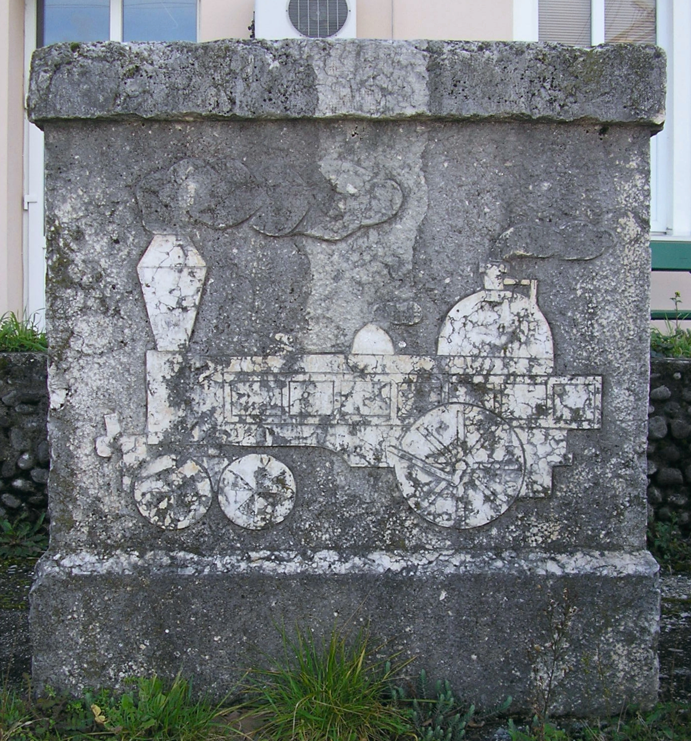 Monument to 110th anniversary of Metković - Mostar railway line